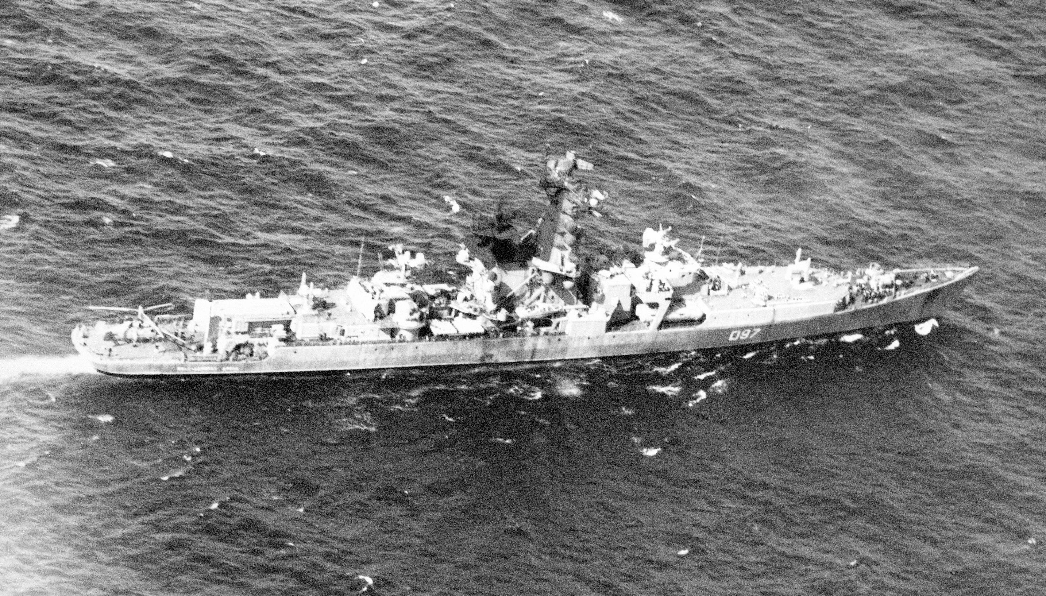 An elevated starboard view of the Soviet Kresta I class guided missile cruiser underway. (SUBSTANDARD)